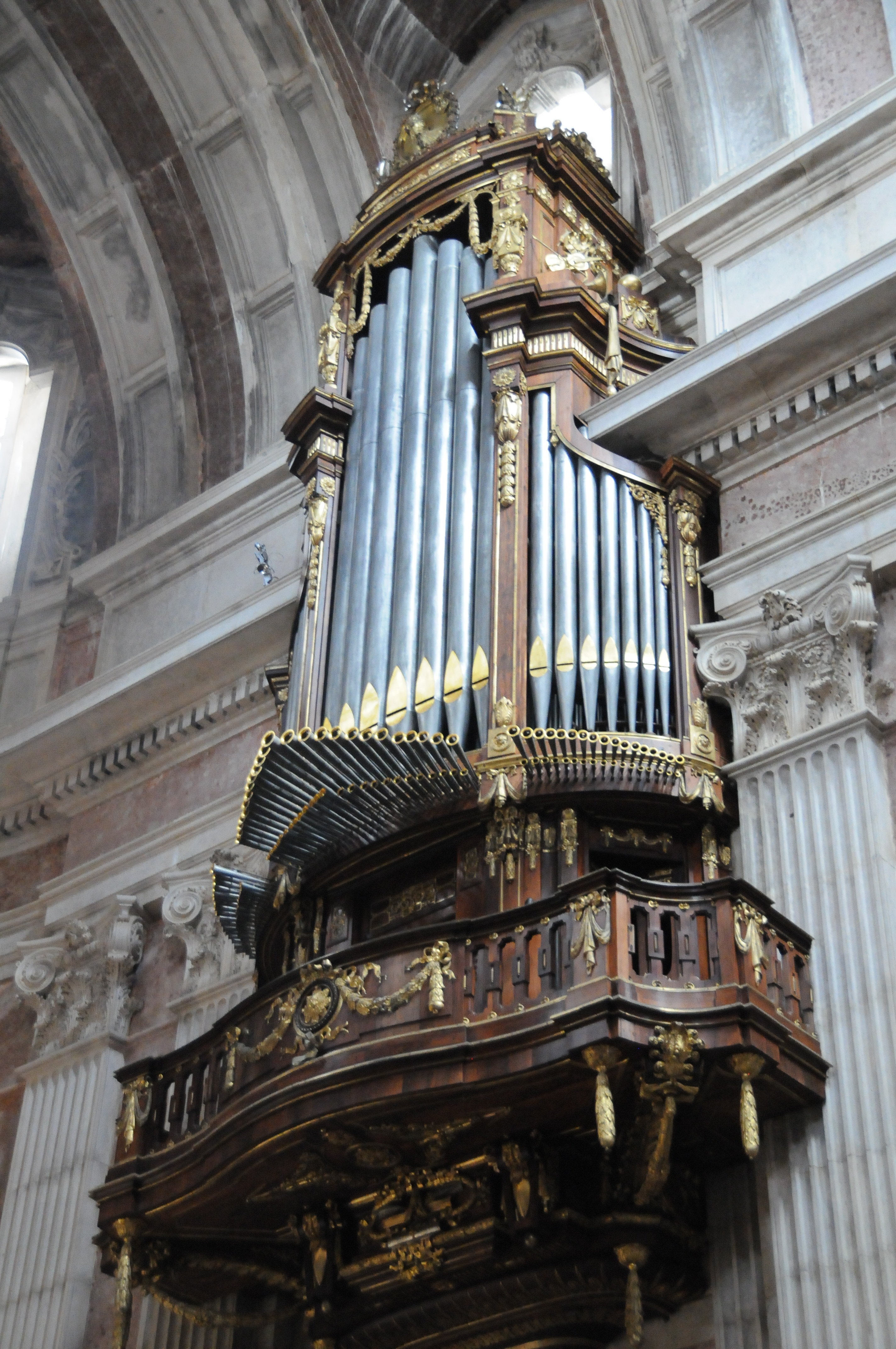 Pipe Organ in Interior of Mafra Church